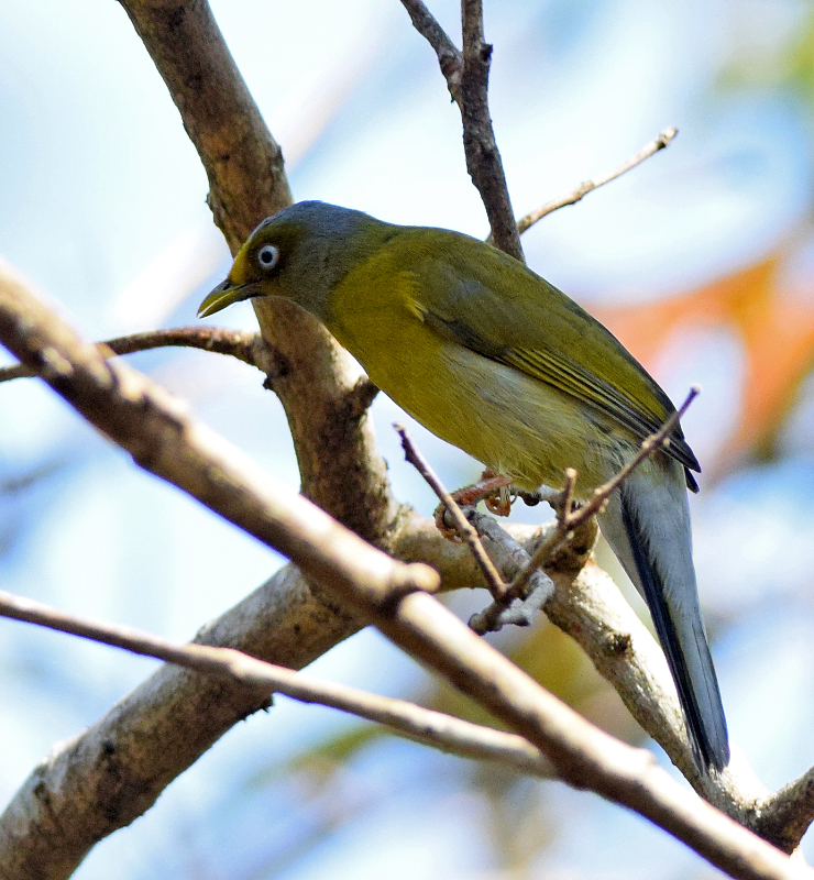 Grey-headed Bulbul Pycnonotus priocephalus, Karnataka, India